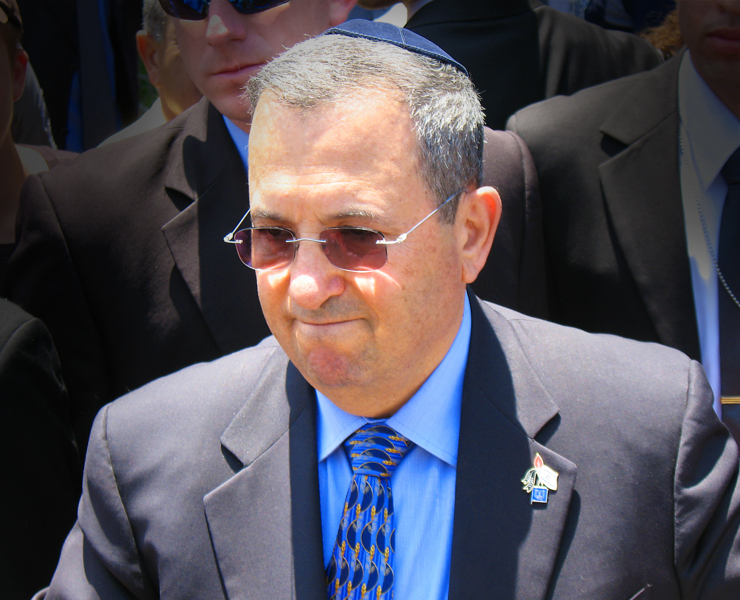 Ehud Barak in Rememberance Day (Yom HaZikaron) ceremony in Kiryat Shaul, Tel Aviv